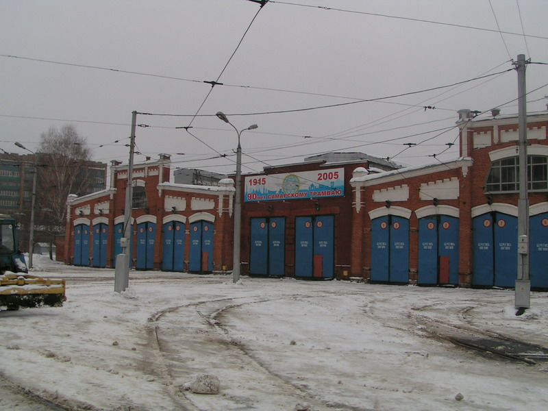 Samara city tram depot